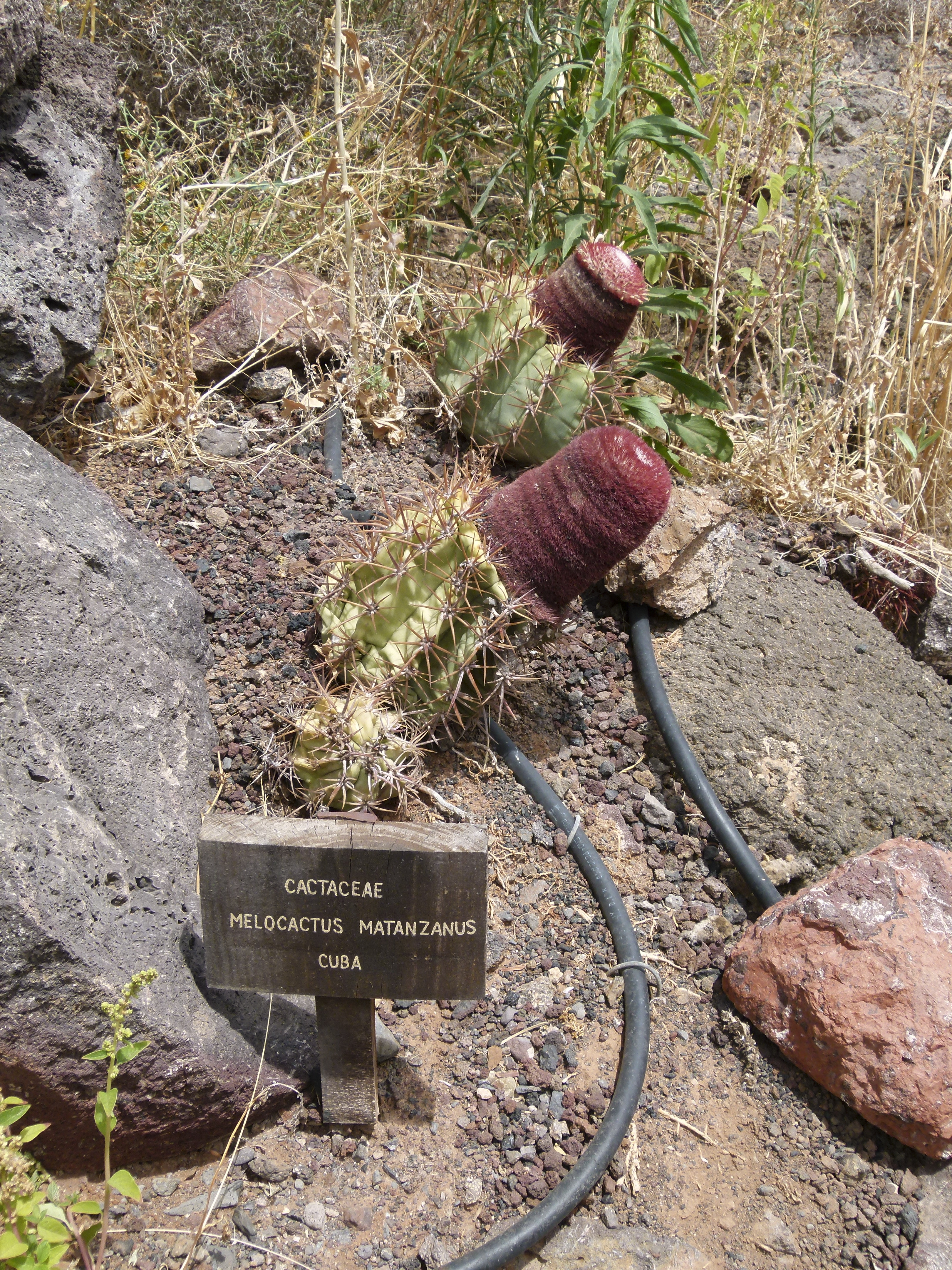 Melocactus matanzanus in the Oasis Park botanical garden, La Lajita, Pájara, Fuerteventura, Canary Islands, Spain